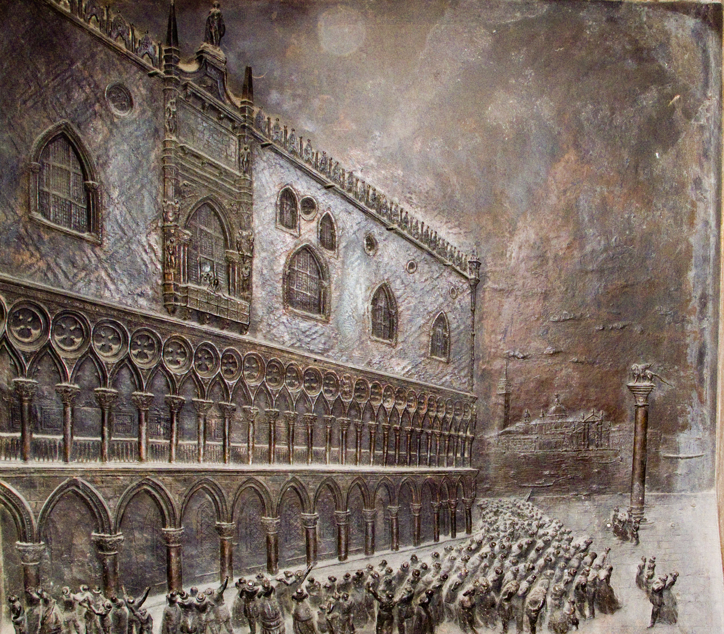 Depicted person: Sebastiano Tecchio